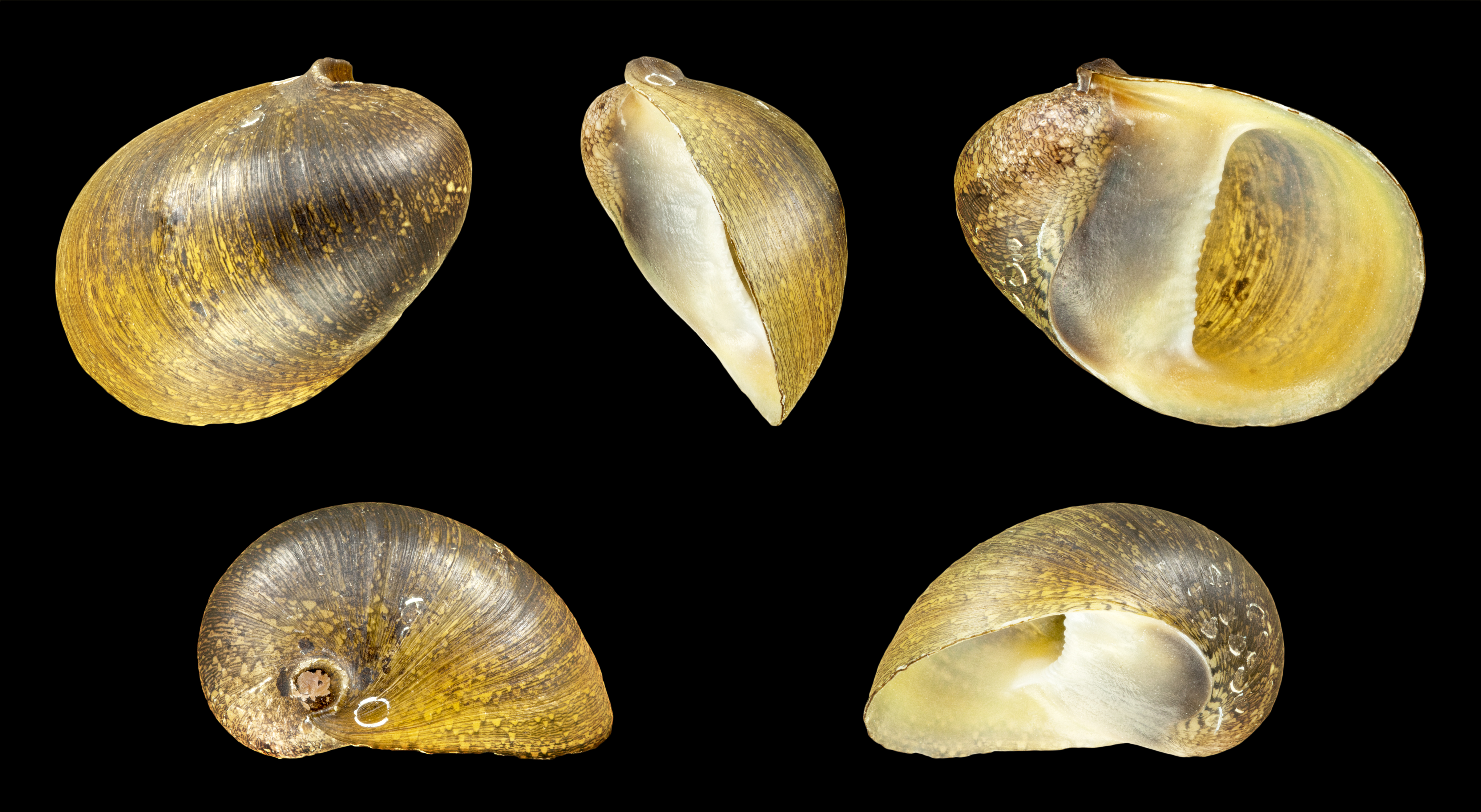 Neritina pulligera (Linné, 1758), Dusky Nerite; Diameter 1.6 cm; Originating from the Philippines; Shell of own collection, therefore not geocoded.